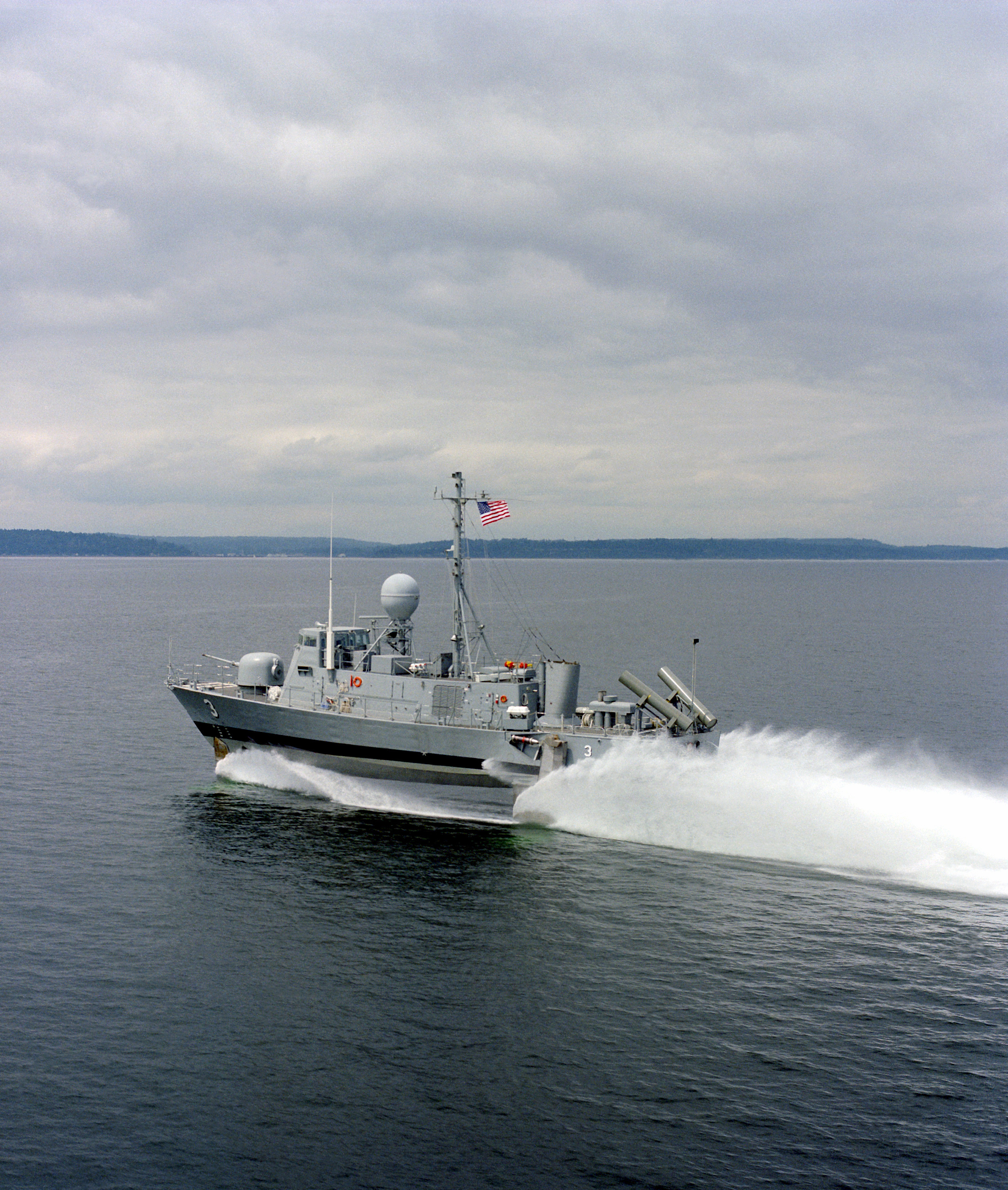 An aerial port quarter view of the Pegasus class patrol hydrofoil missile ship TAURUS (PHM-3) underway during high speed pre-delivery tests.